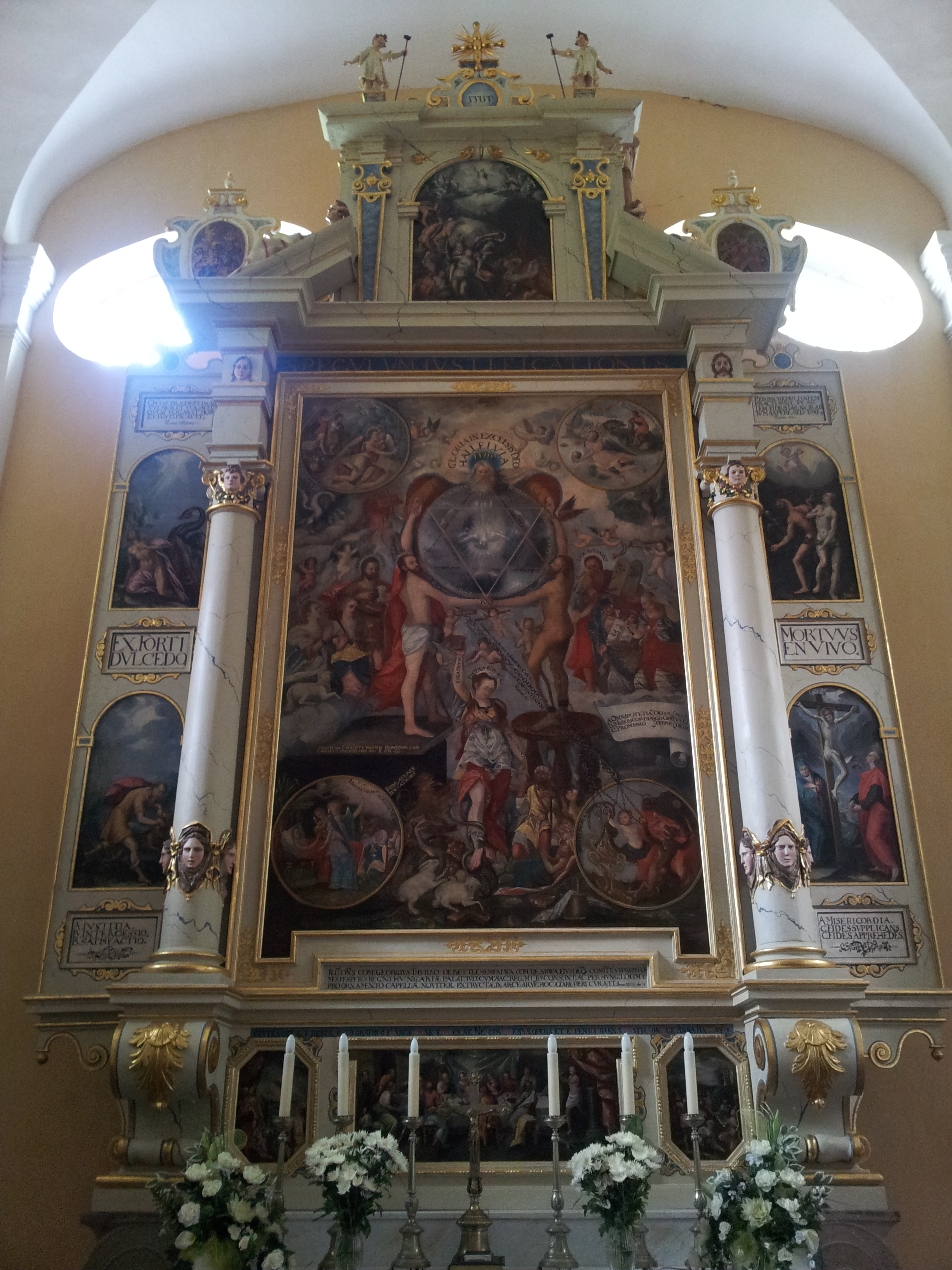 Renaissance altar in the Lutheran church in Necpaly, Slovakia.